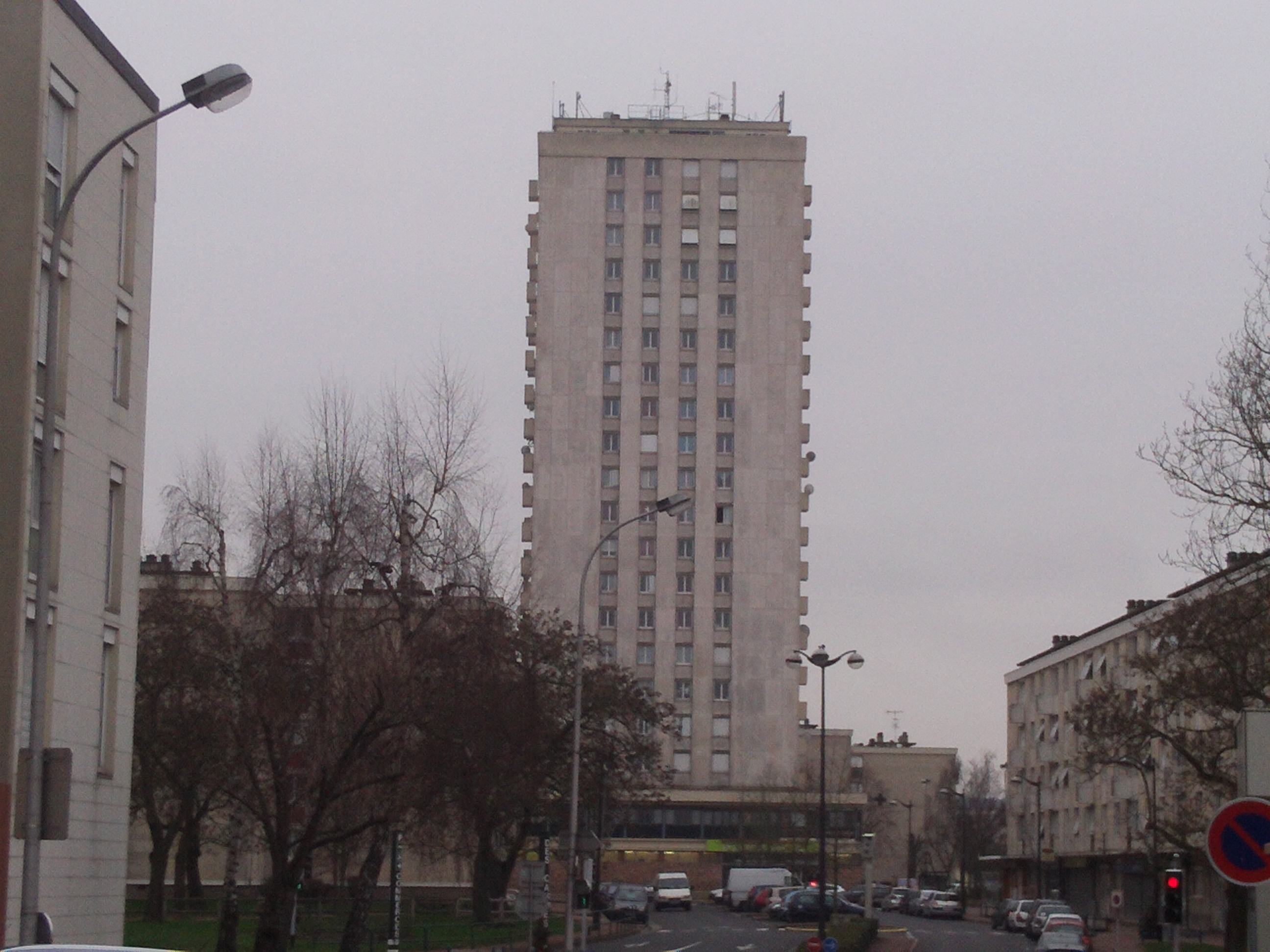 oise 1